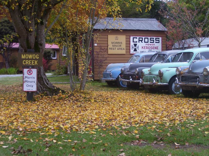 the Manapouri Holiday Park Morris Minor Collection